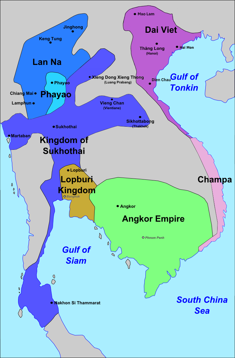 Southeast Asian history - 13th century